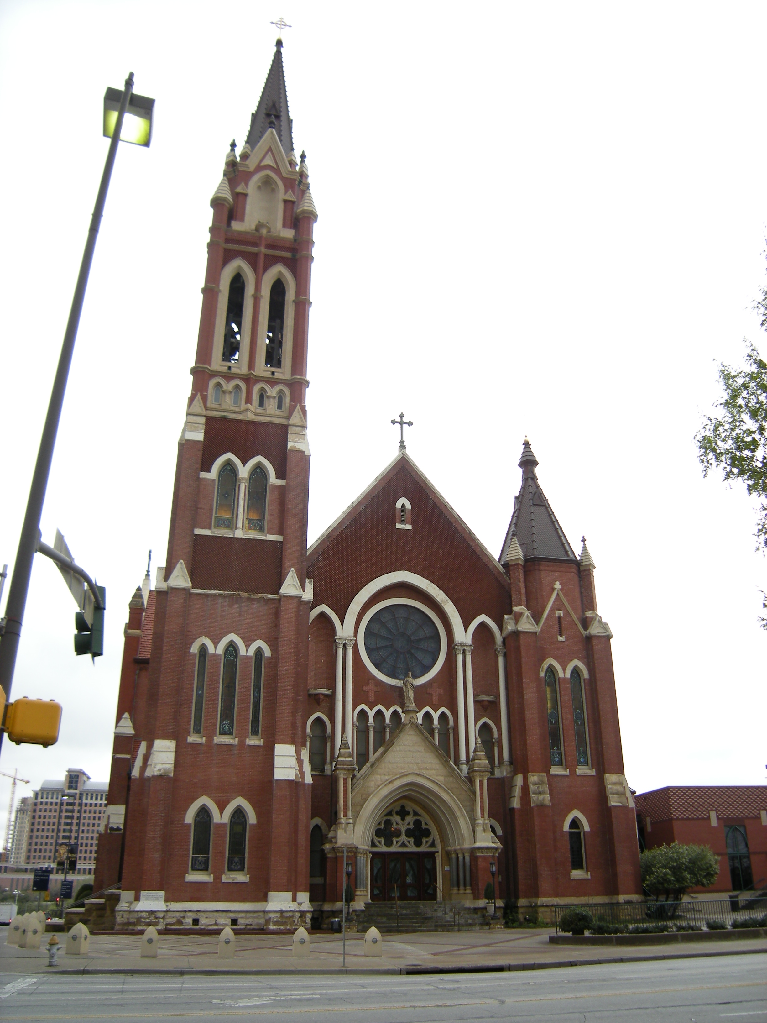 Cathedral Santuario de Guadalupe, Arts District, Dallas, Texas.